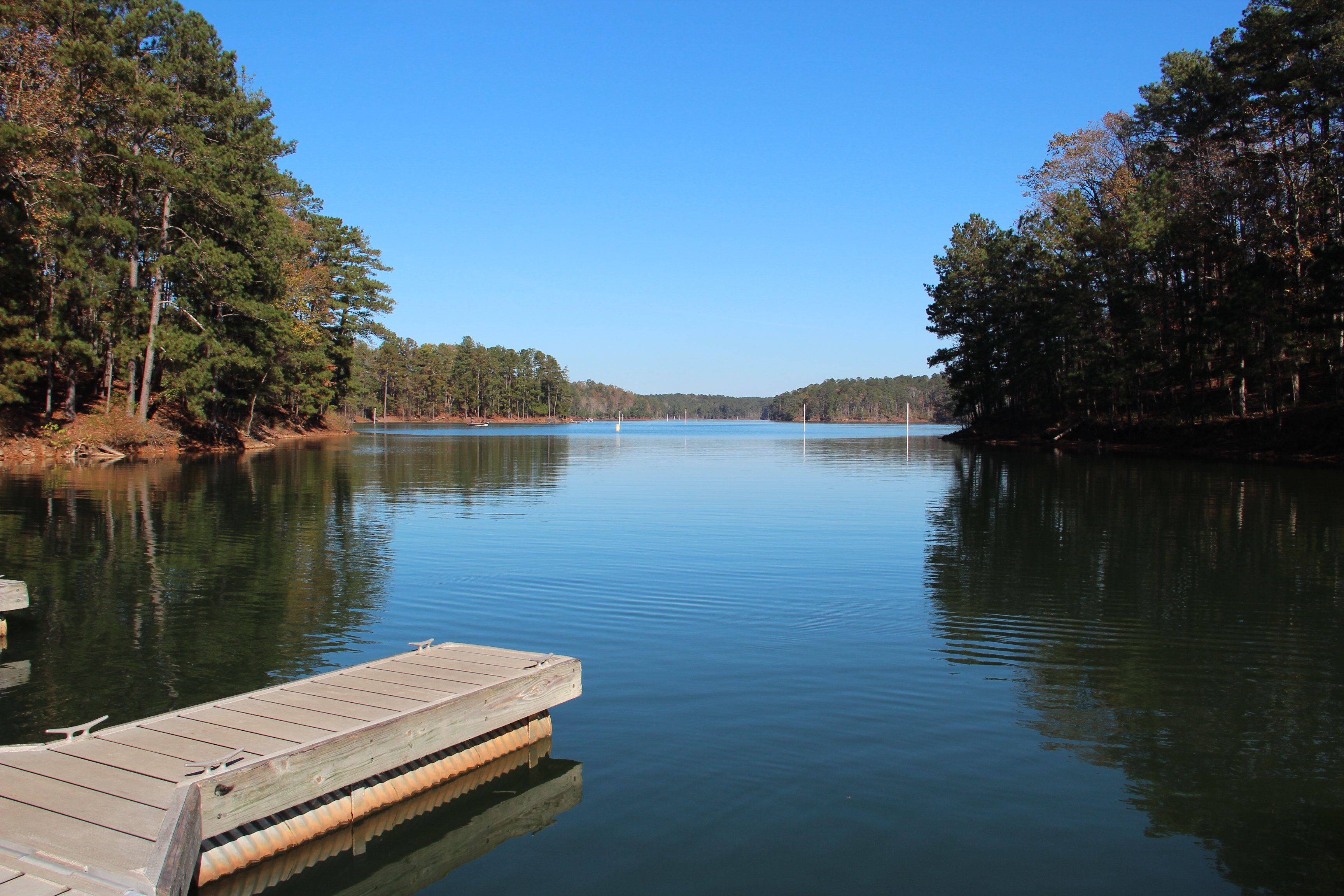 Red Top Mountain State Park, November 2015